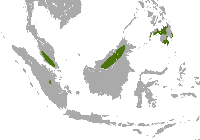 White-collared Fruit Bat (Megaerops wetmorei) range